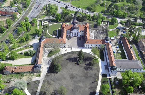 Gödöllő, Hungary, aerial photography This is a photo of a monument in Hungary. Identifier: 7051